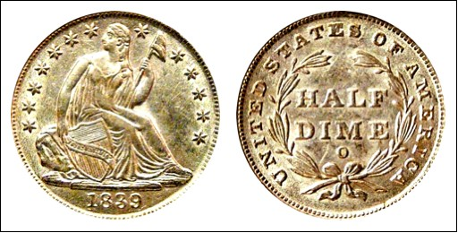 1839 Half Dime (5 cent) coin struck by New Orleans Mint. Copyright (c) . Permission is granted to copy, distribute and/or modify this document under the terms of the GNU Free Documentation License, Version 1.2 or any later version published by the Free Software Foundation; with no Invariant Sections, no Front-Cover Texts, and no Back-Cover Texts. A copy of the license is included in the section entitled "GNU Free Documentation License". Scan by Peter Clericuzio 2005.